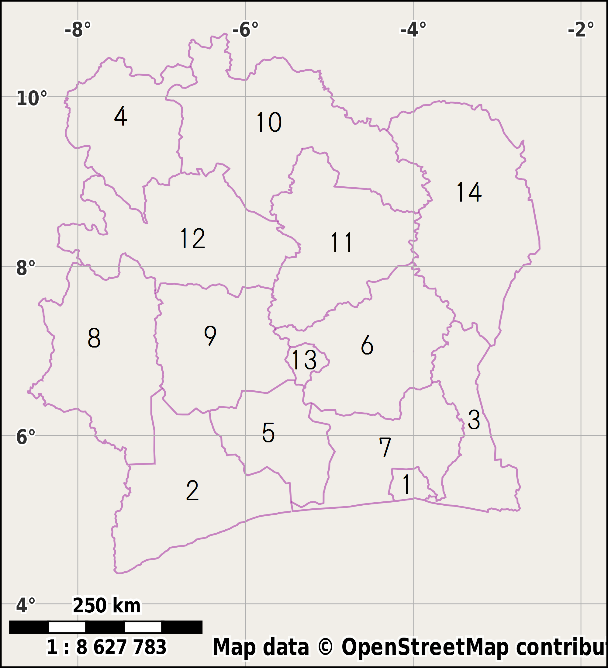 File:Ivory Coast regions april 2014.svg, with numerical labels. Reference: [1] Abidjan Bas-Sassandra Comoé Denguélé Gôh-Djiboua Lacs Lagunes Montagnes Sassandra-Marahoué Savanes Vallée du Bandama Woroba） Yamoussoukro Zanzan